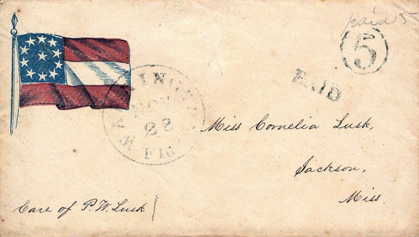 CSA mail w/ provisional hand-stamp on patriotic cover, 1861